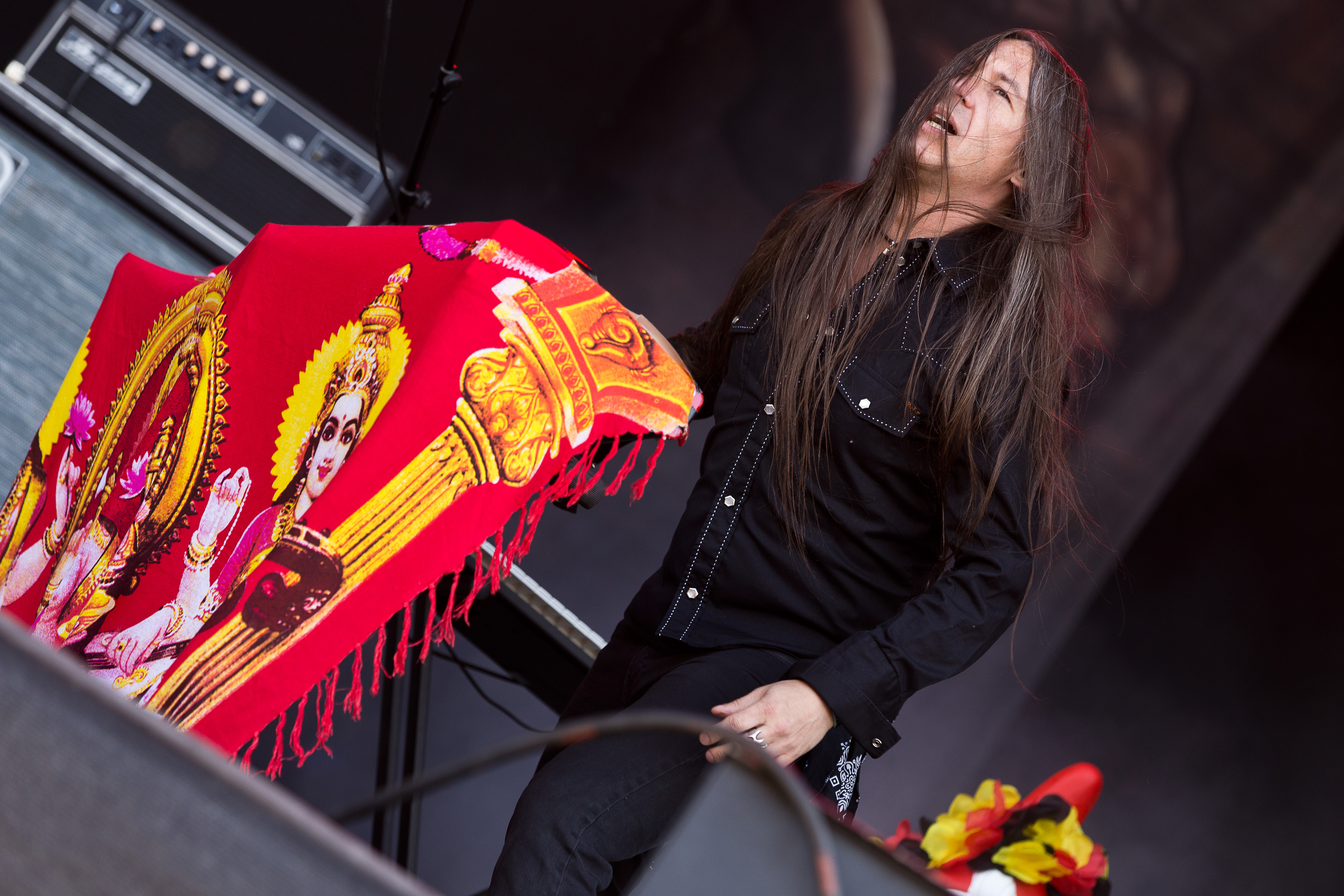 The Swedish stoner metal band Spiritual Beggars at the Rockharz Open Air 2016 in Ballenstedt/Germany.